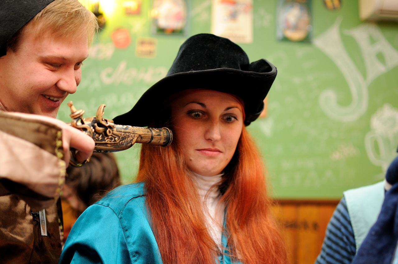 pirate qwest